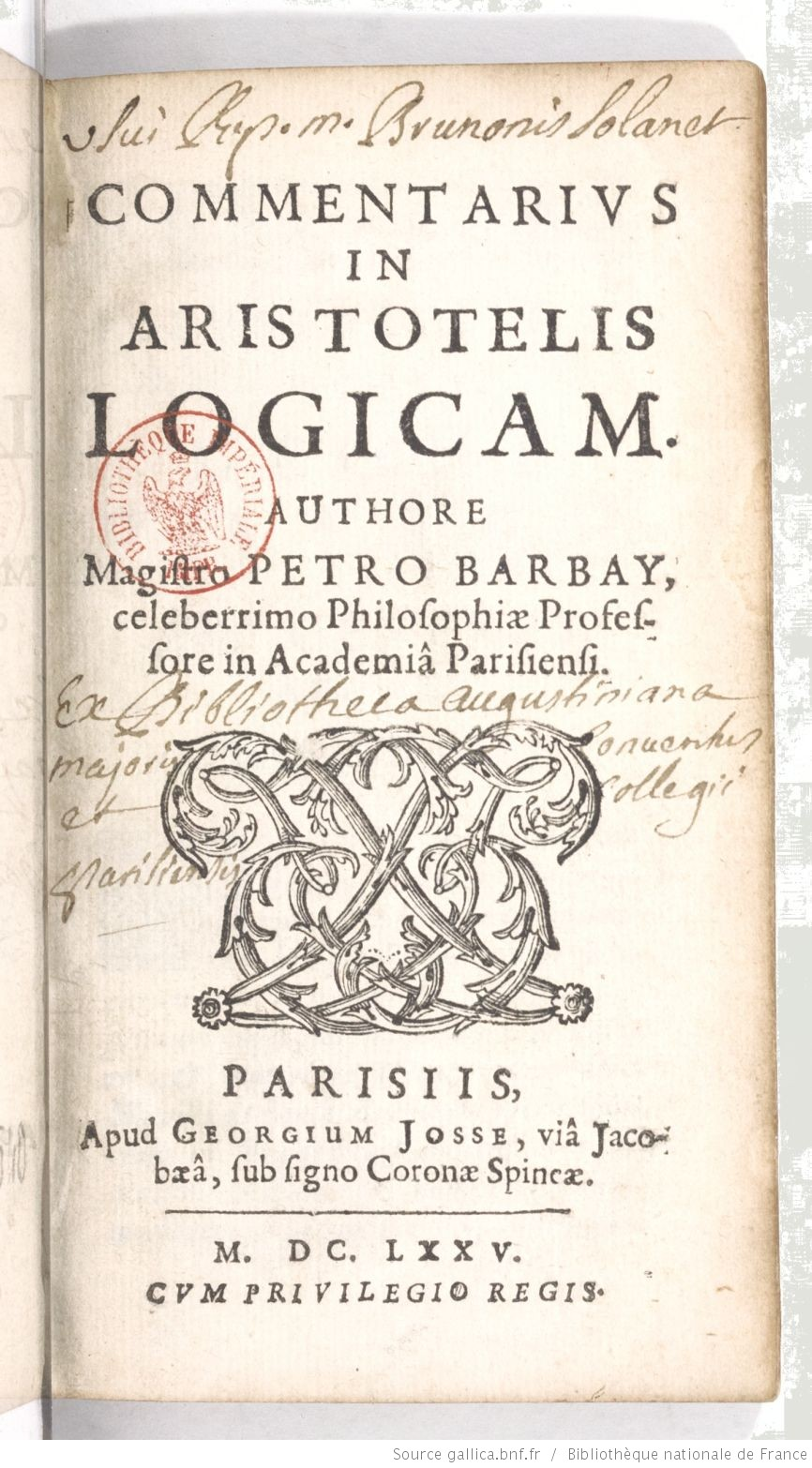 Pierre Barbay, title page of his 'Commentarius in Aristotelis Logicam'